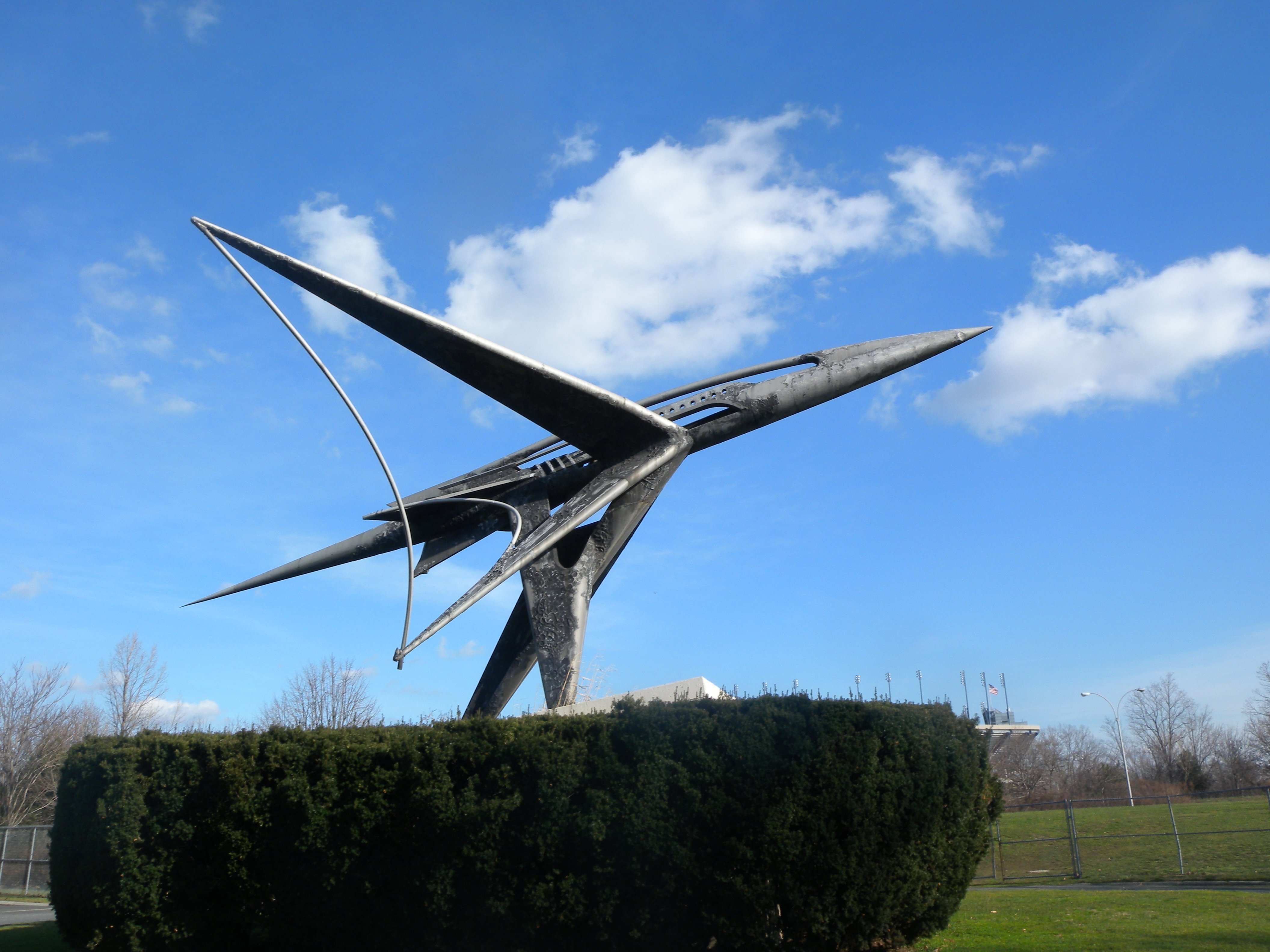 Looking east at flying machine in a mostly clear blue sky late in a warm winter morning.